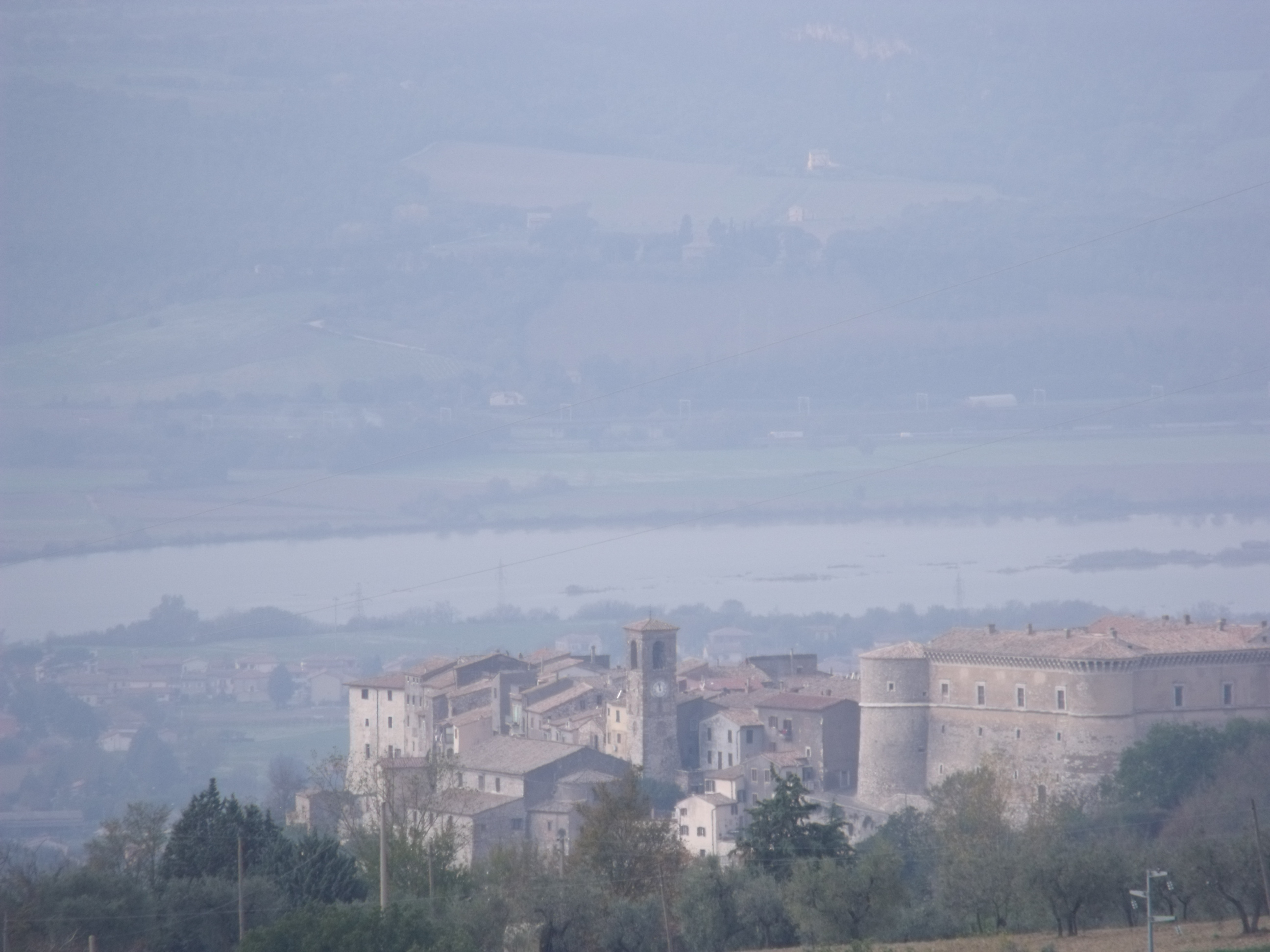 Panorama of Alviano, Province of Terni, Umbria, Italy